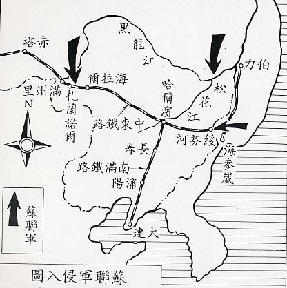 NON